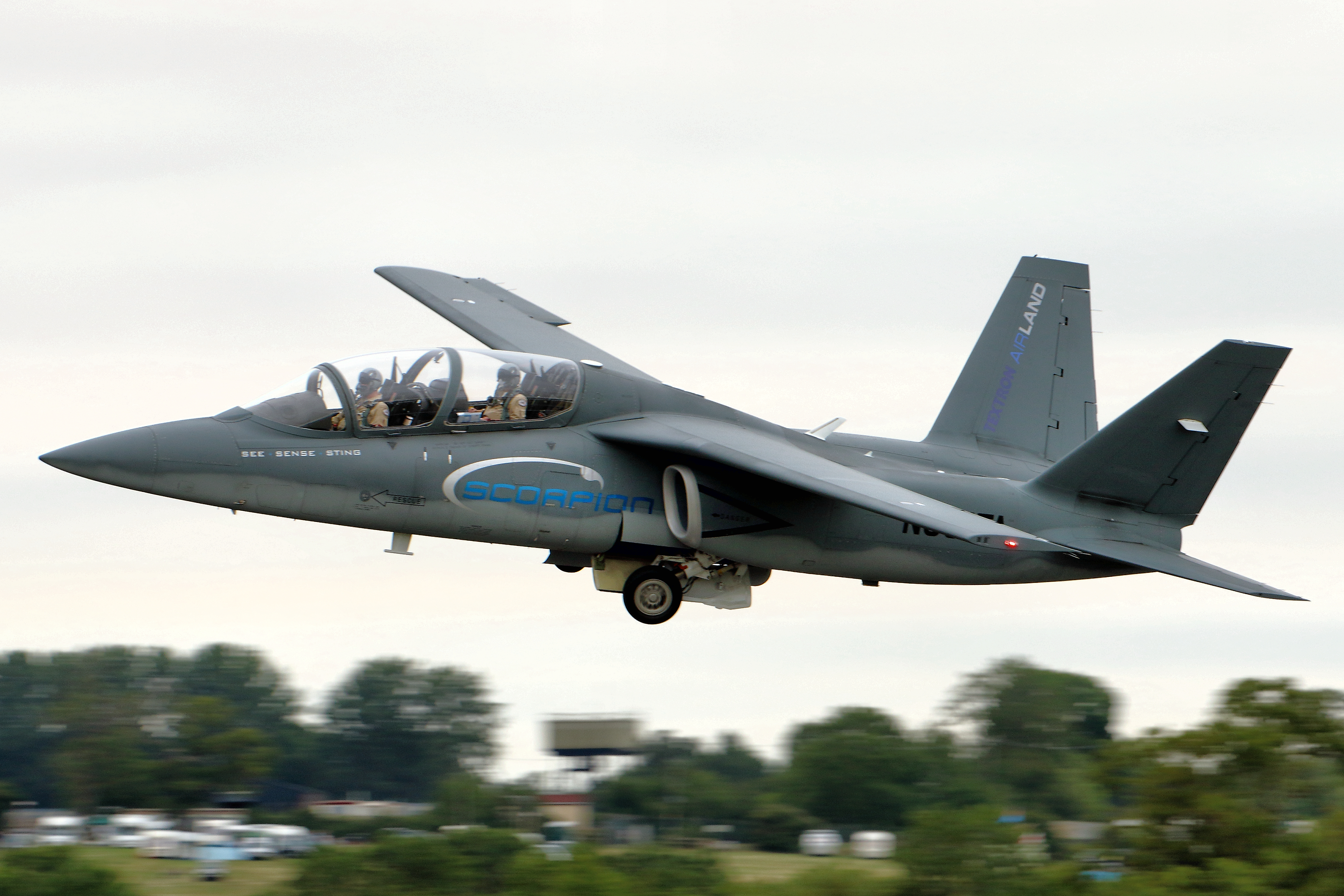 Textron AirLand Scorpion at 2015 RIAT